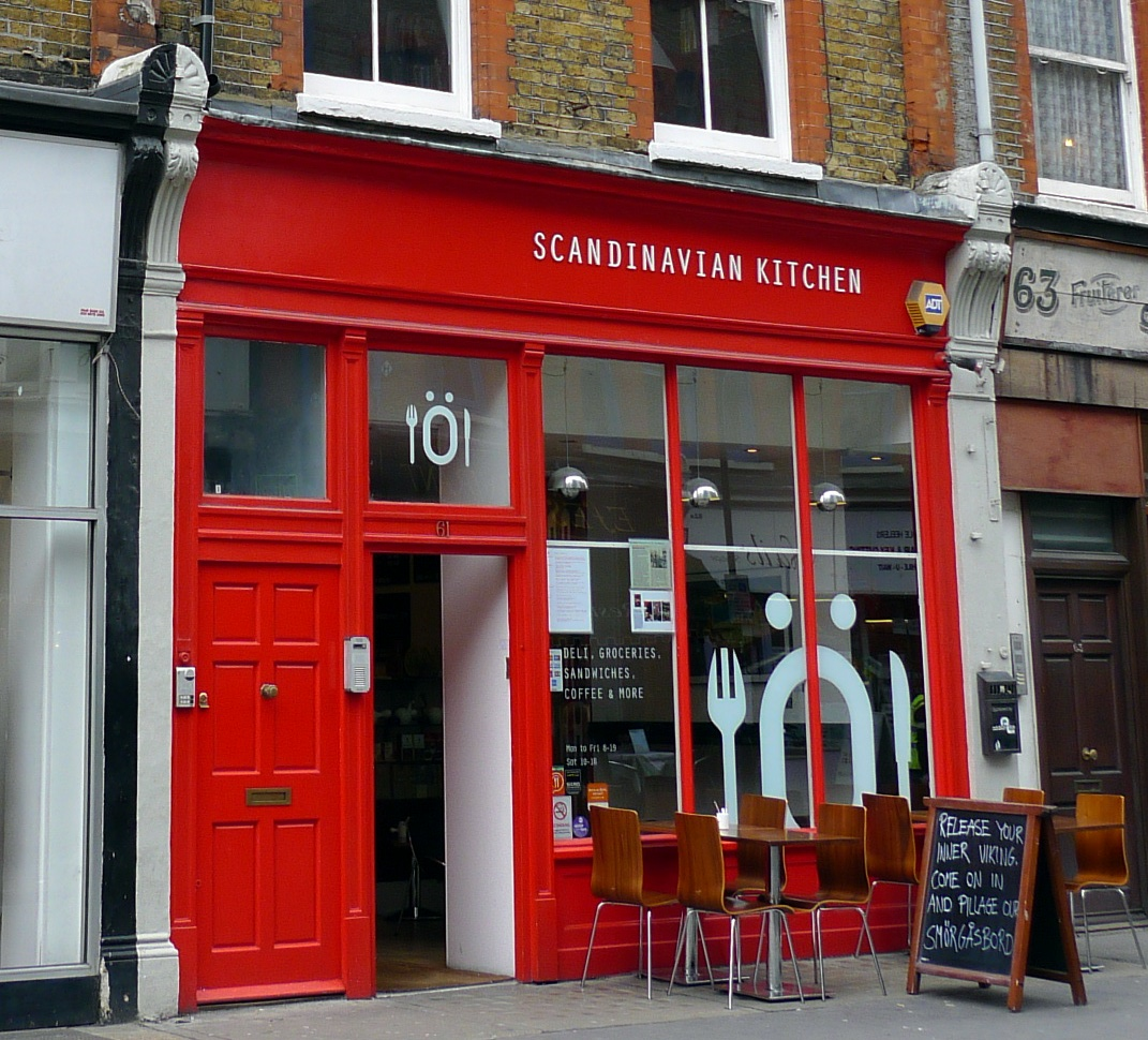 A very decent food shop and cafe, serving food from Sweden, Denmark and Norway as you'd expect, as well as imported items from those places. It always has a wryly amusing (or deeply unfortunate, depending on your viewpoint) series of puns on its chalk board outside the shop. (Photo of a savoury breakfast.) Address: 61 Great Titchfield Street. Owner: (website). Links: Randomness Guide to London London Breakfast London Eating Qype --- Bellaphon [Les]